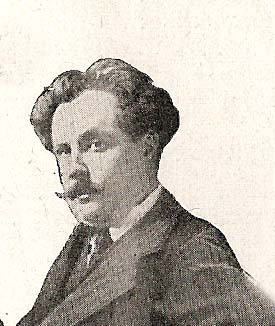 Georges Jules Charles Pioch (9 October 1873 – 27 March 1953) was a French journalist and militant communist.